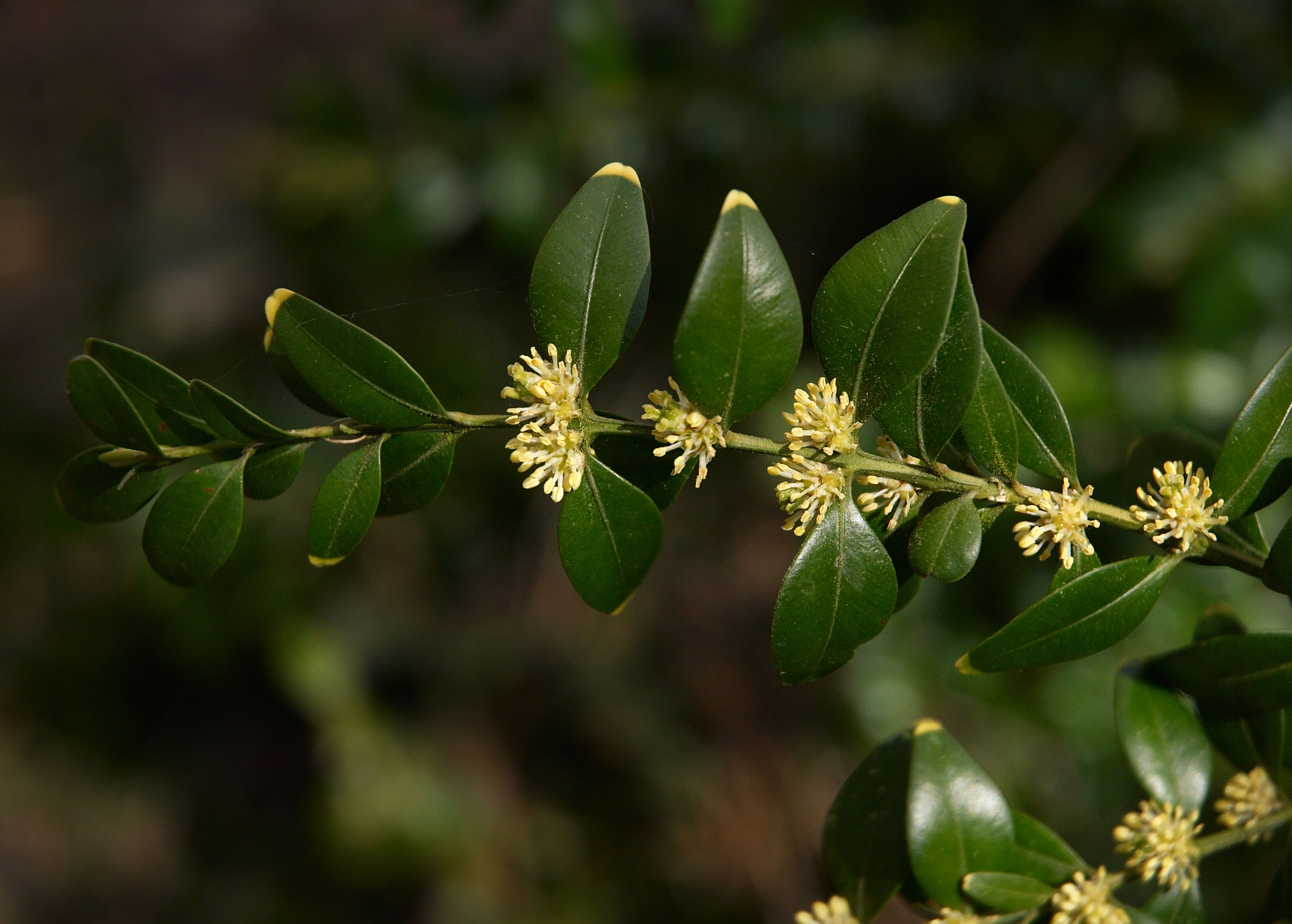 Flowers of Buxus sempervirens (however not 100% sure)